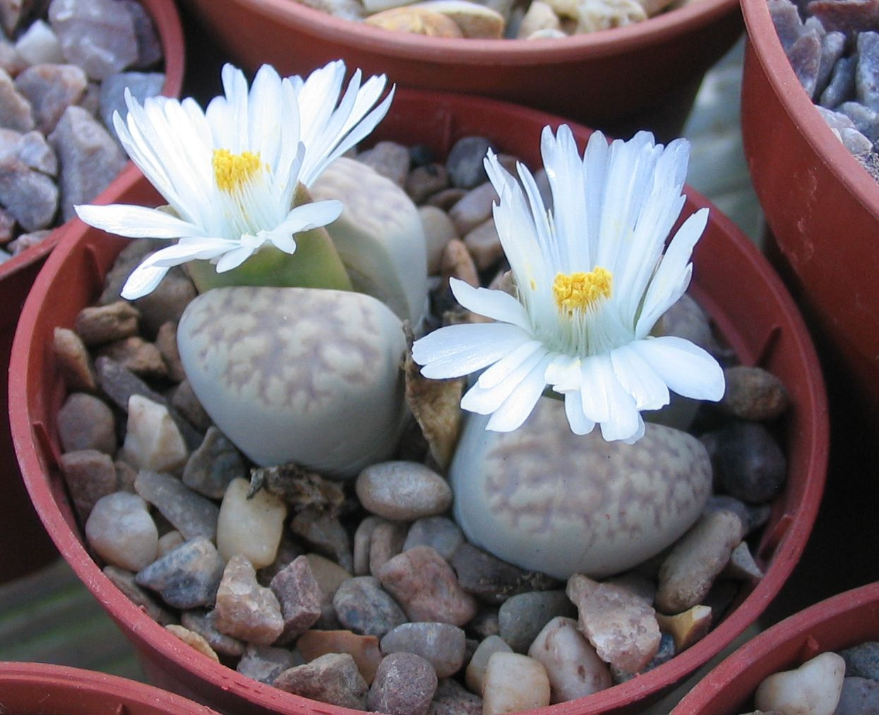 Lithops amicorum in cultivation